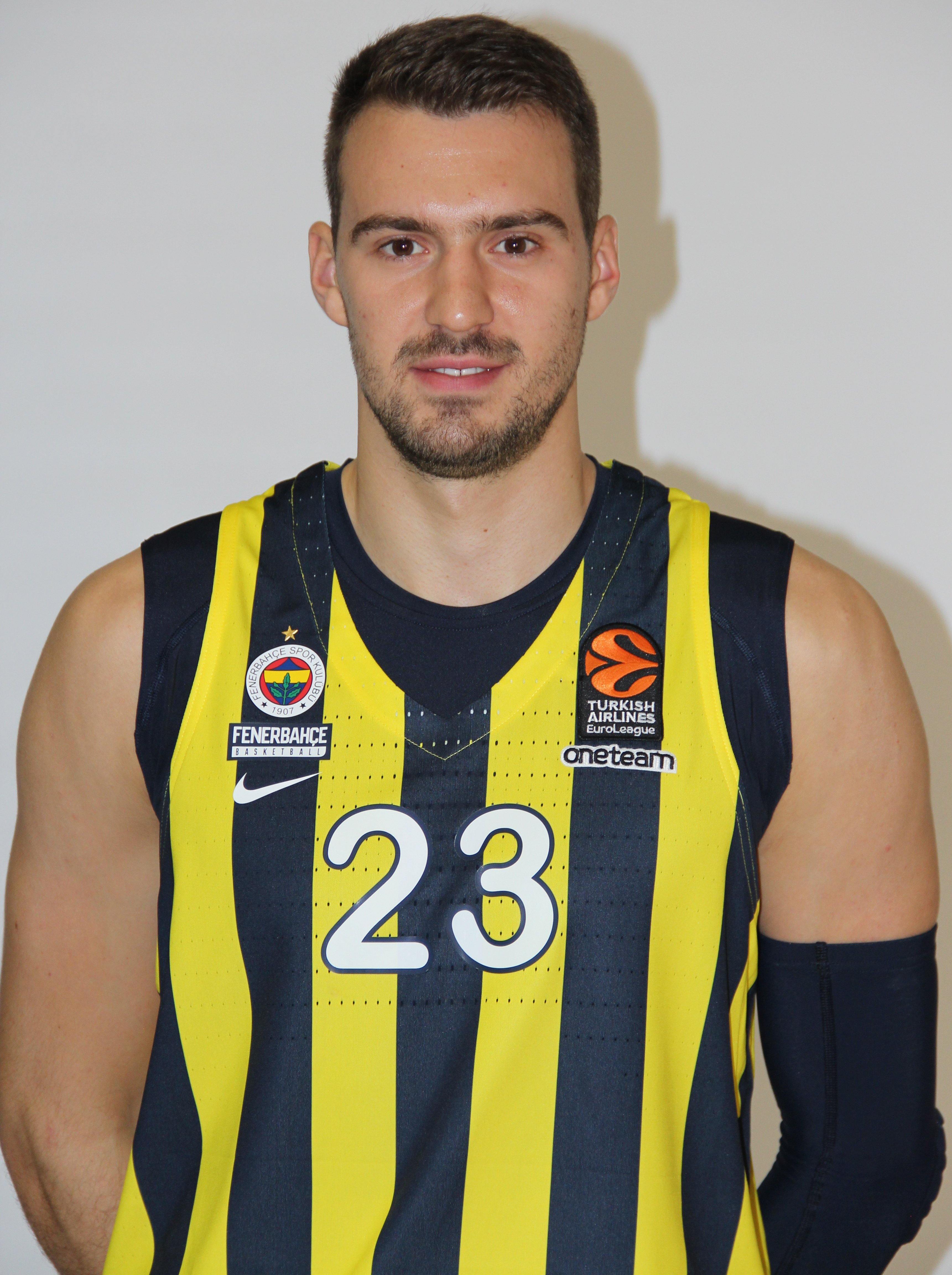 Marko Gudurić Fenerbahçe Basketball Media Day 20180925